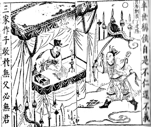 Lü Bu kills Ding Yuan